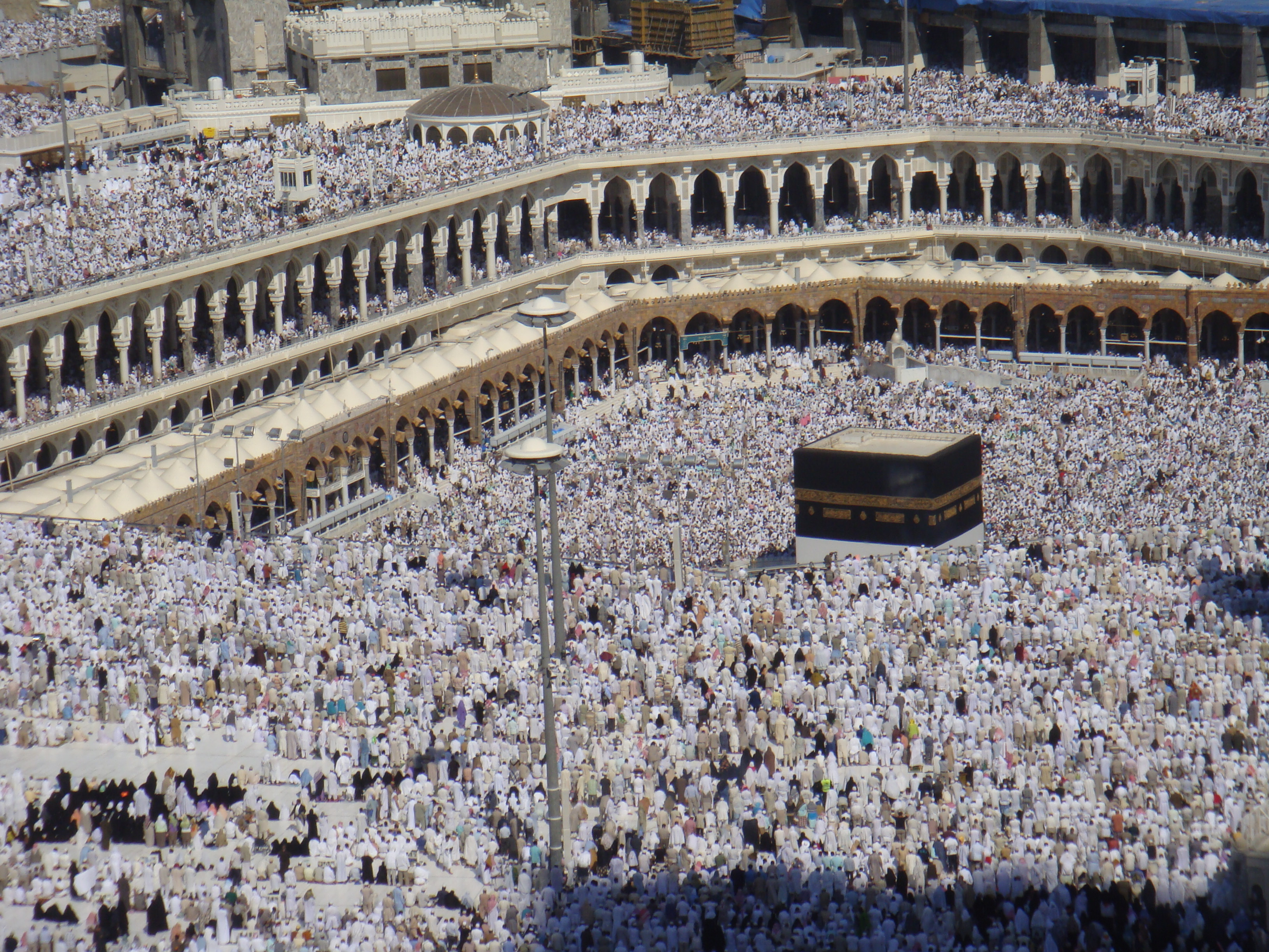 The Kaaba at the start of Hajj